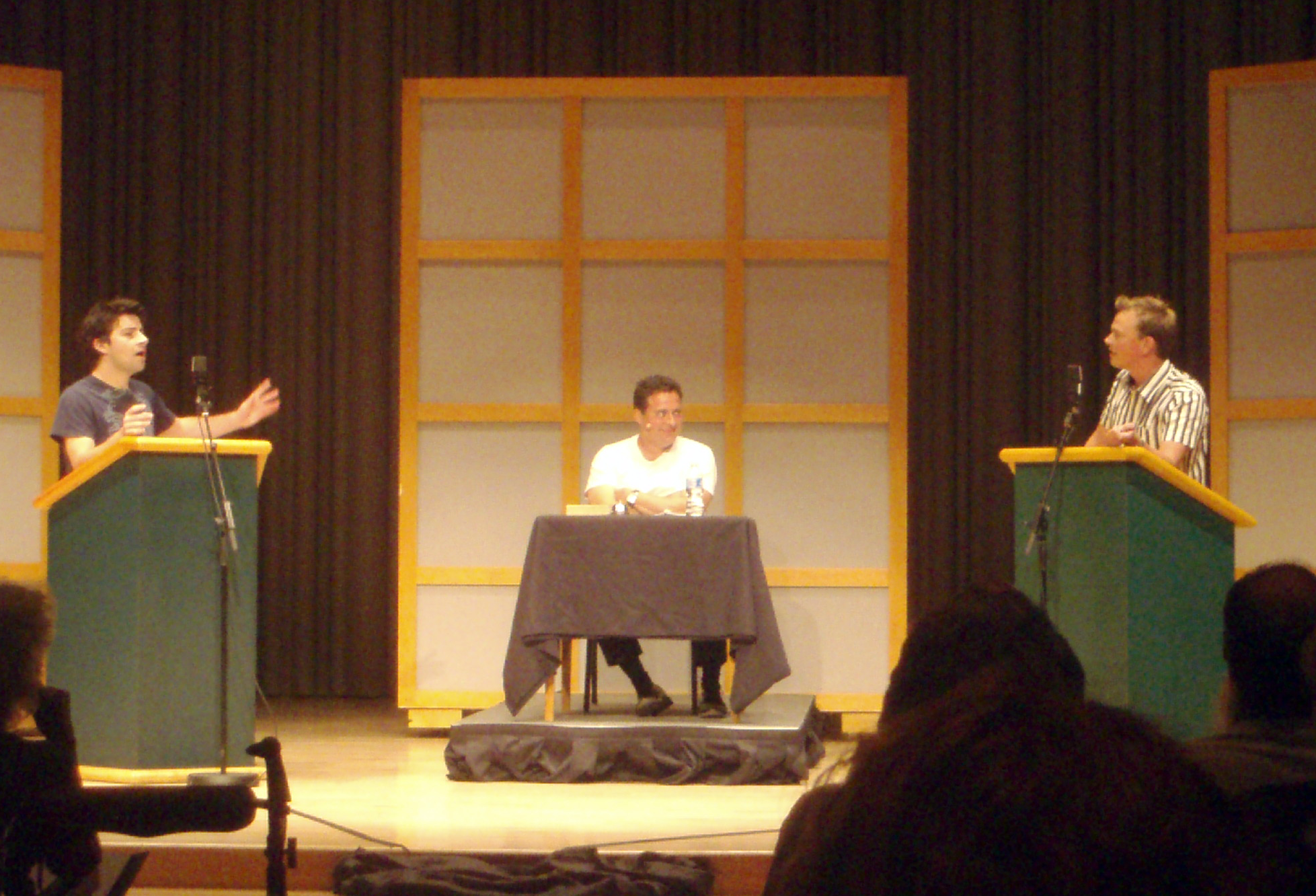 Picture of two Canadian comics and host (Sean Cullen) debating an issue on the CBC Radio One comedy show "The Debaters", taken from a live-audience taping at the Glenn Gould Studio in Toronto on August 9th, 2007.